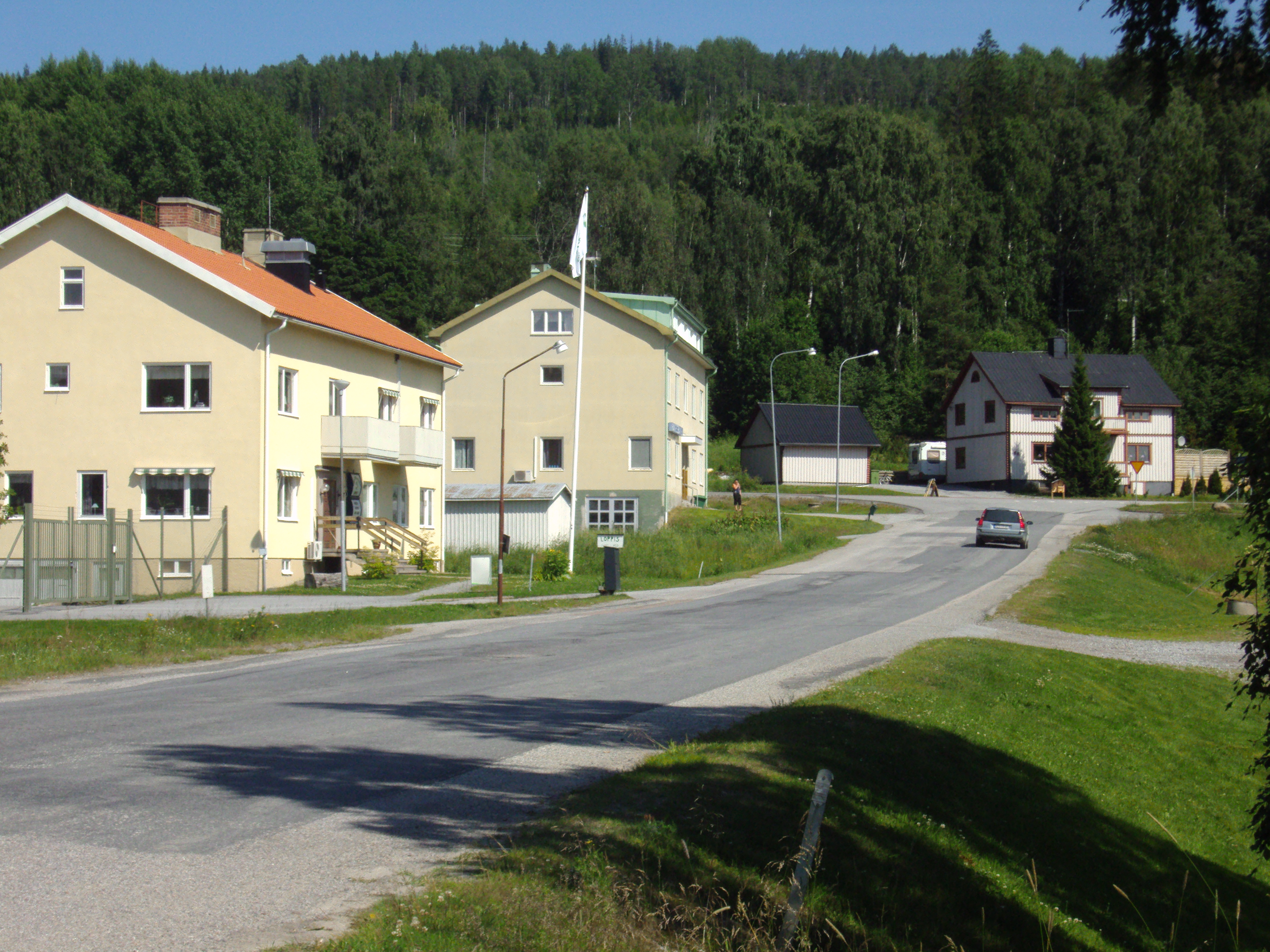 Central Lugnvik, Kramfors, Sweden